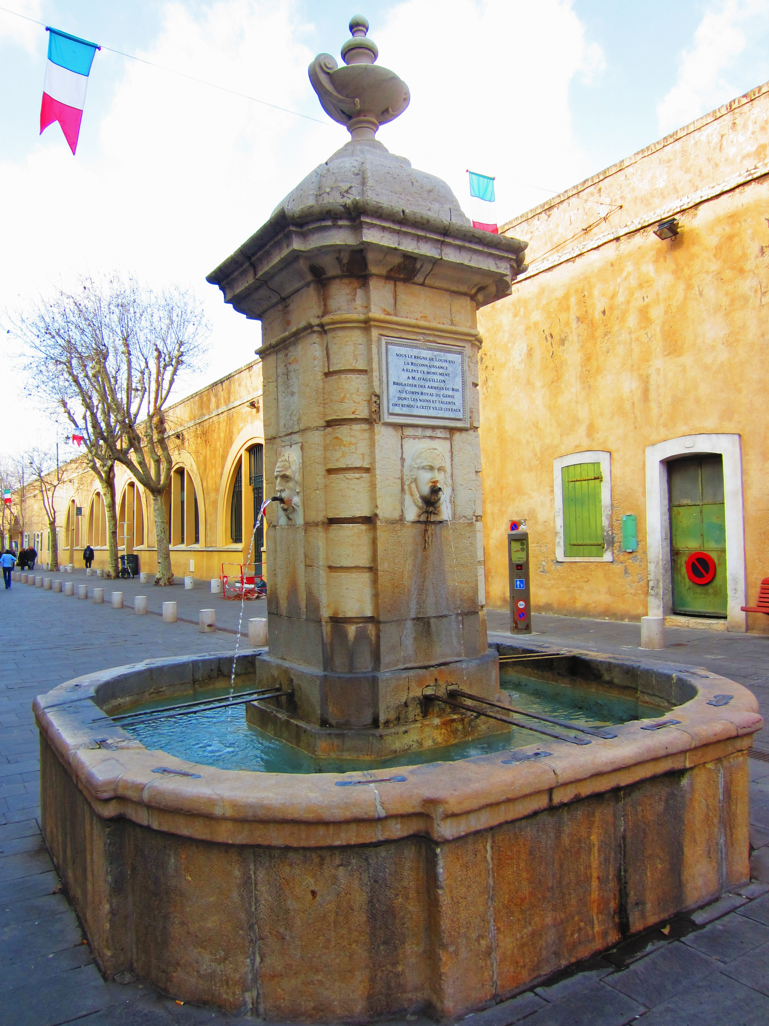 Fountain aguillon Antibes